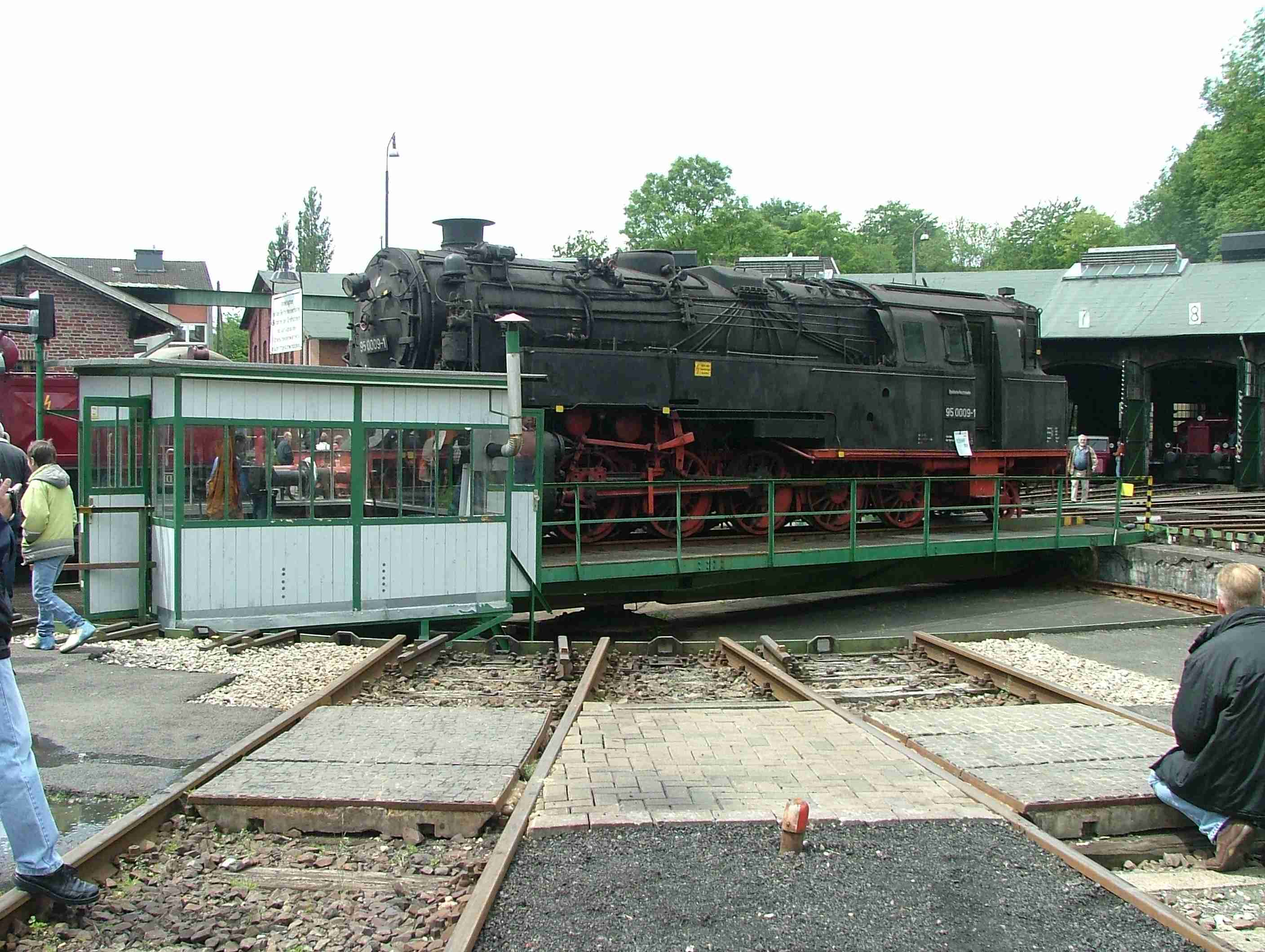 turntable at Railroad Museum Dieringhausen, Germany Eigenaufnahme vom 04. Juni 2006